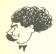 caricature of the Swedish trade union leader Arvid Thorberg, by Hjalmar Pettersson.